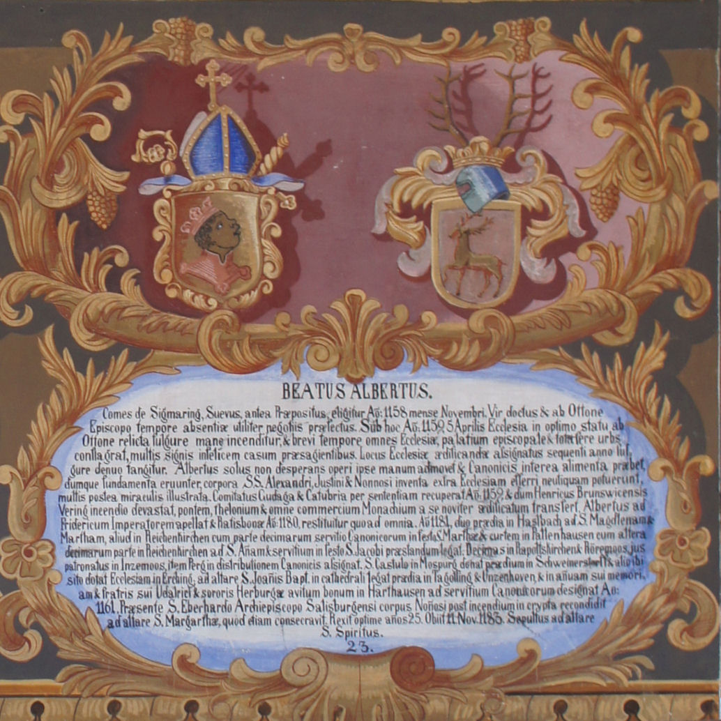 Wappentafel von Albert I. von Harthausen, Bischof von Freising, im Fürstengang zwischen Fürstbischöflicher Residenz und Freisinger Dom. Links das geistliche, rechts das persönliche Wappen, darunter ein lateinischer Text mit kurzer Biographie.